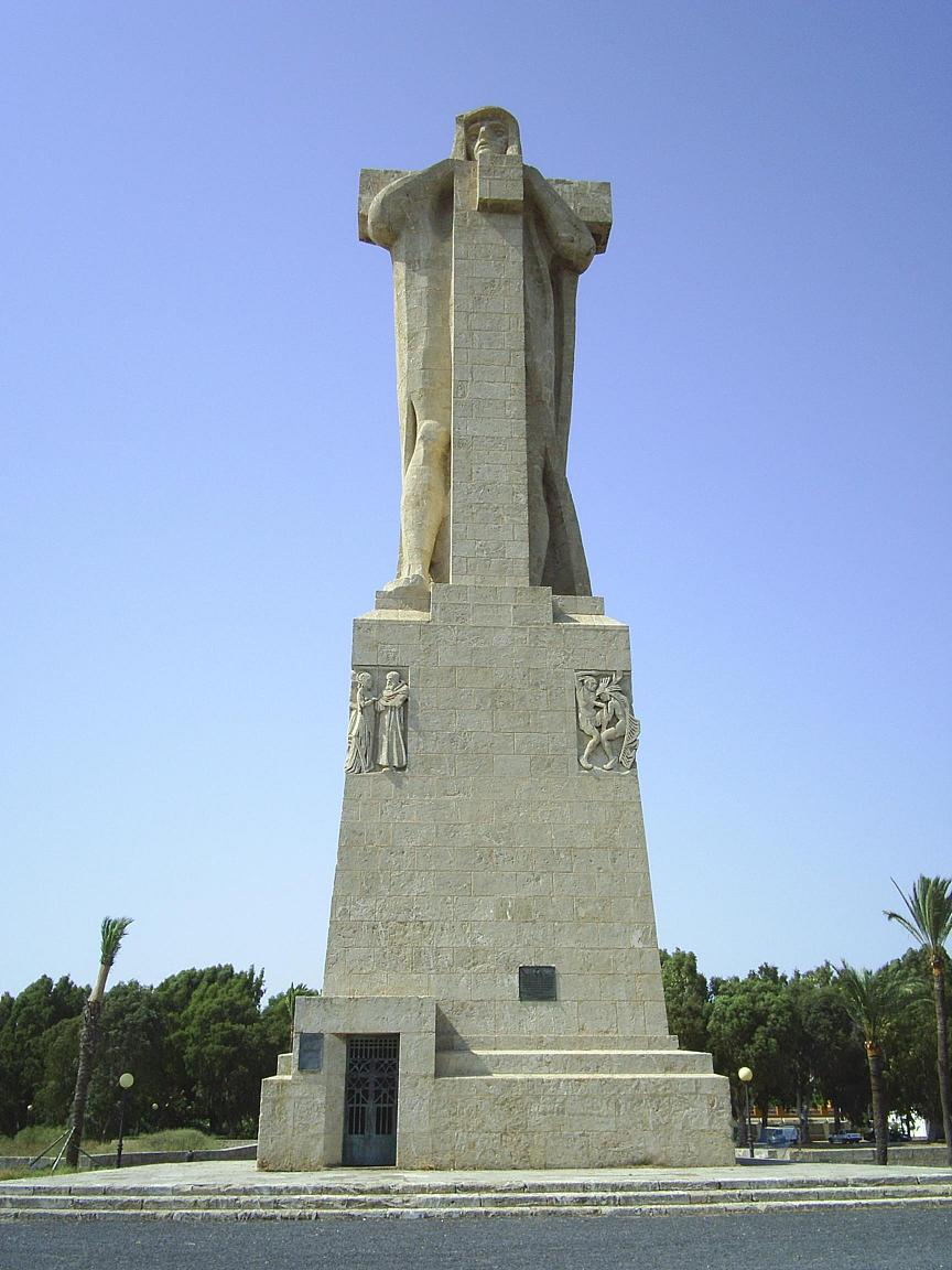 Monumento a la Fe Descubridora. Ría de Huelva (España)